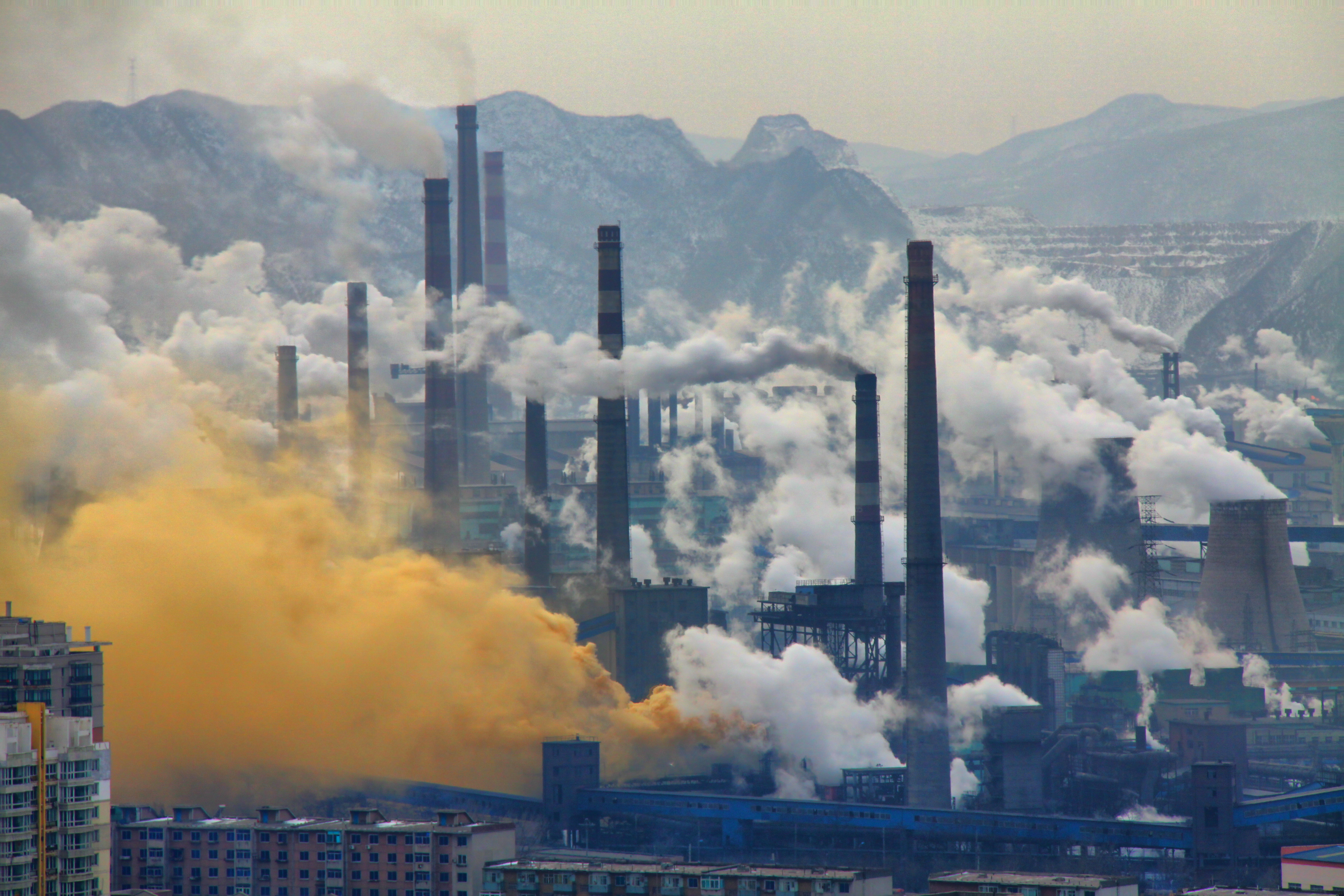 Benxi heavy steel industries in February 2013